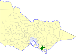 Location of the Shire of Woorayl within Victoria.